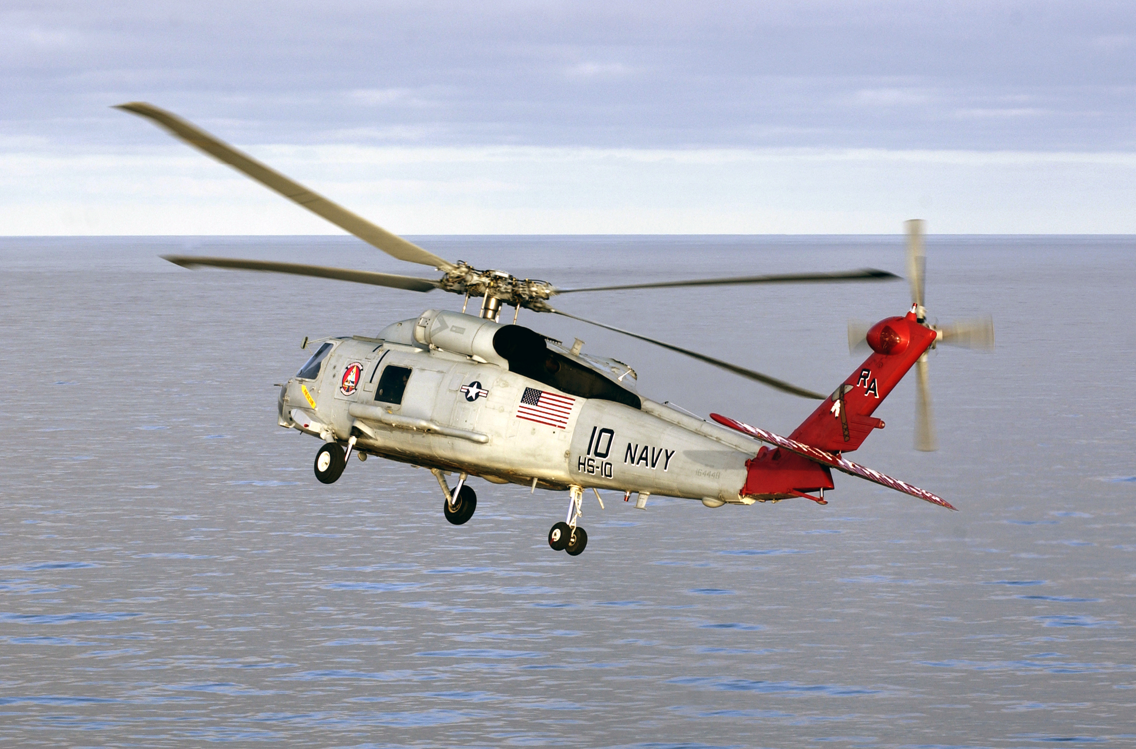 Naval Air Station North Island, San Diego, Calif. (May 2, 2003) -- An SH-60F Seahawk assigned to the War Hawks of Helicopter Anti-Submarine Squadron Ten (HS-10) flies channel guard for USS Abraham Lincoln (CVN 72) as she enters San Diego Harbor. The Abraham Lincoln Carrier Strike Group flew more than 1600 sorties and expended 1.6 million pounds of ordnance, including 116 Tomahawks during the deployment. Operation Iraqi Freedom is the multi-national coalition effort to liberate the Iraqi people, eliminate Iraq’s weapons of mass destruction, and end the regime of Saddam Hussein. U.S. Navy photo by Photographer’s Mate Airman Andrew J. Betting. (RELEASED)